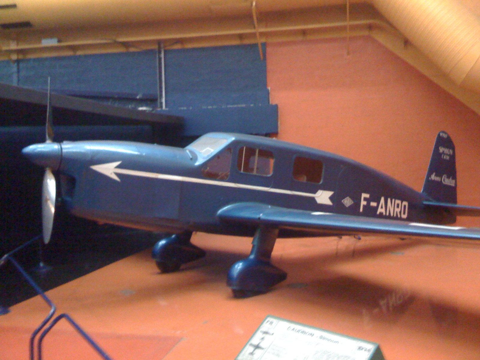 Coudron Simoun, Le Bourget Air & Space Museum